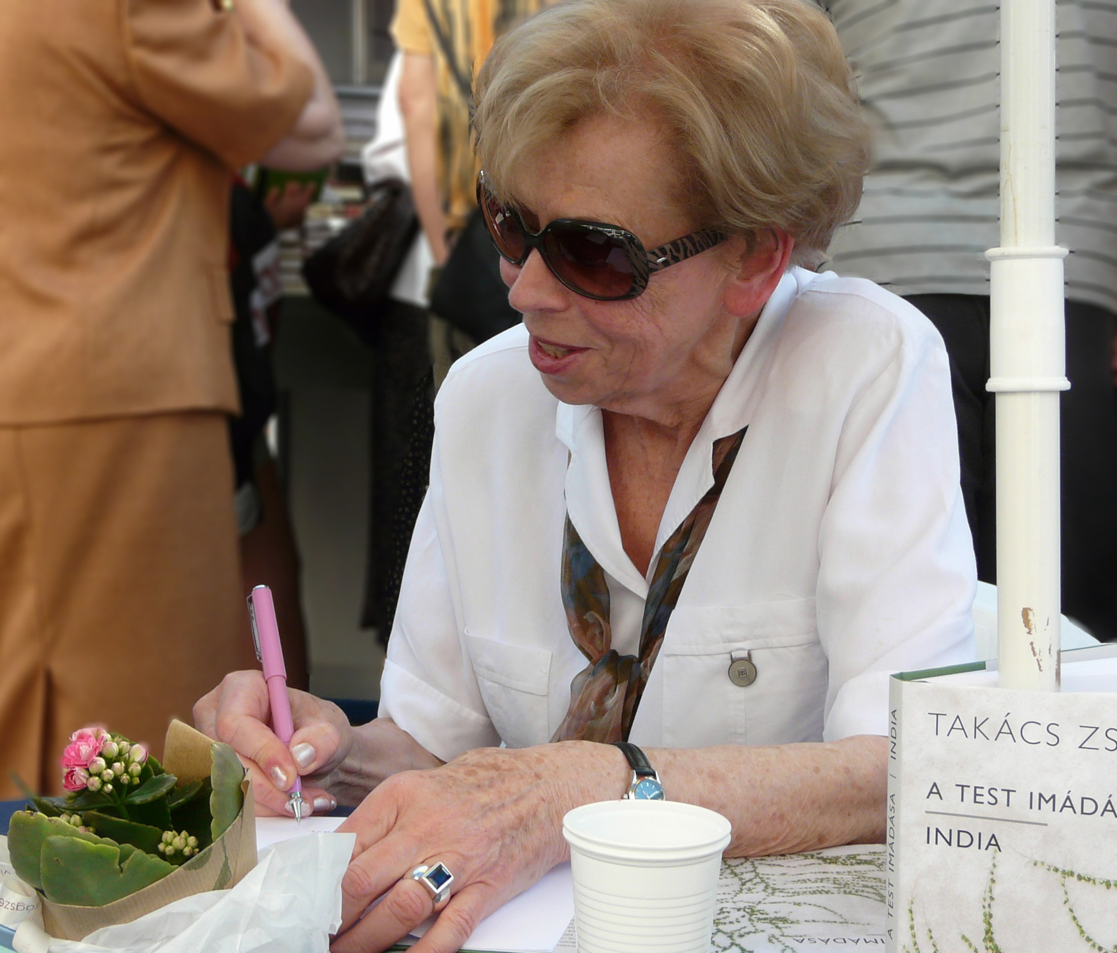 Zsuzsa Takács, Hungarian writer. Juin 2010.